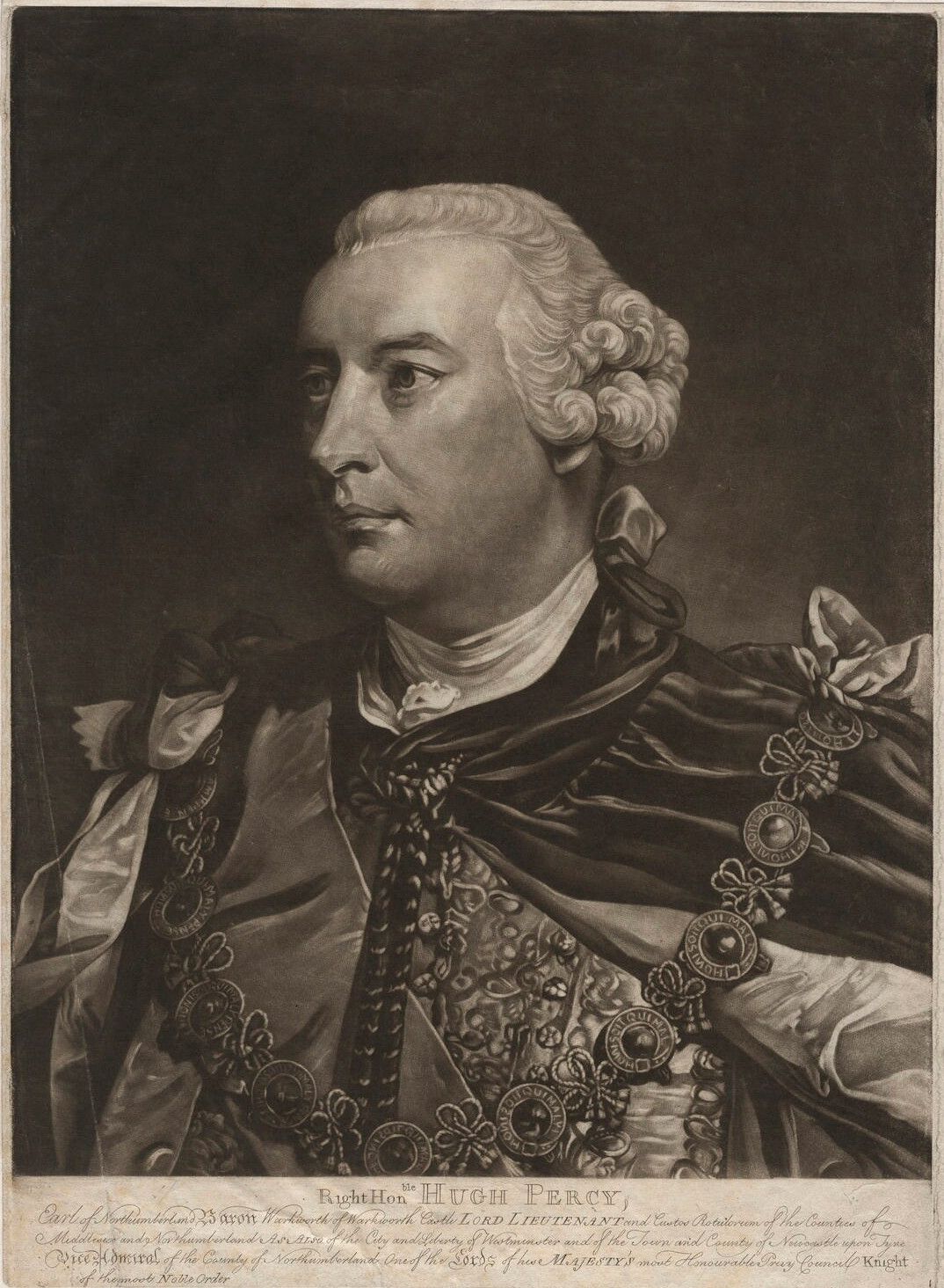 Hugh Percy, 1st Duke of Northumberland (c.1714-1786)